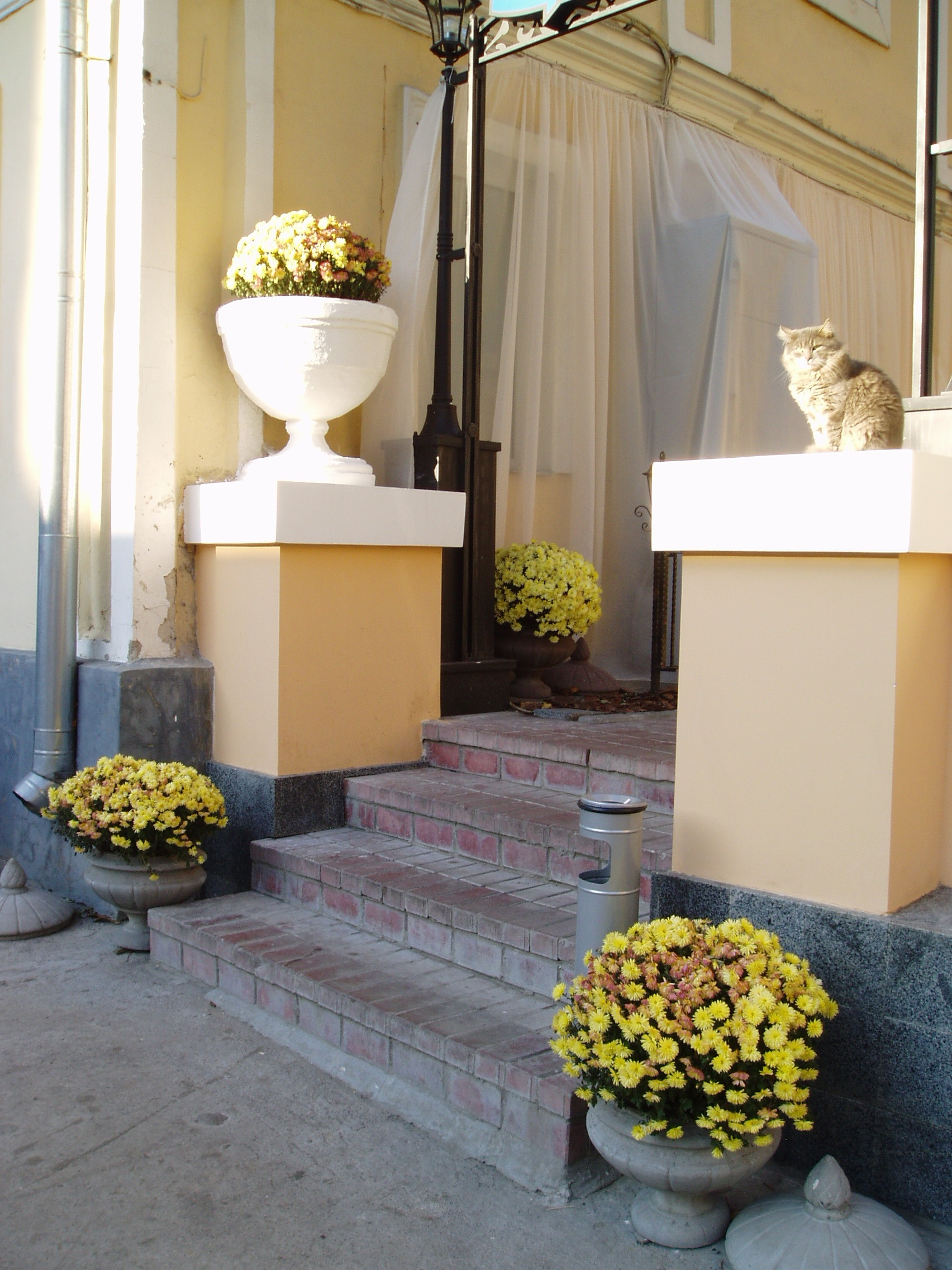 The entrance to the Liberman manor's backyard in Kyiv